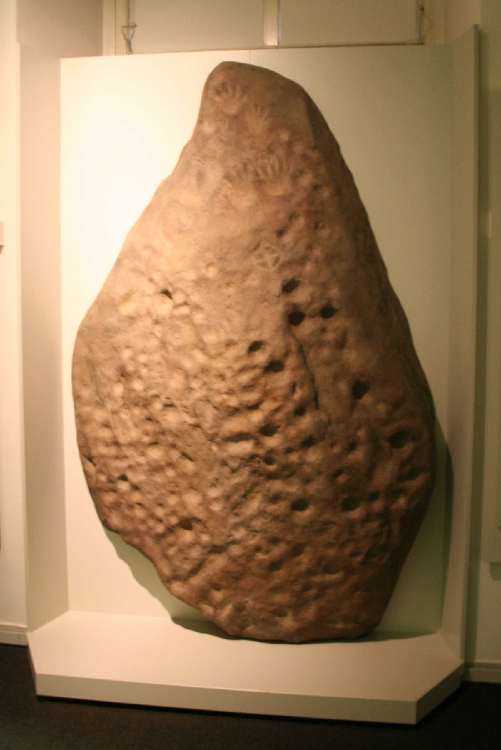 Archaeological state museum Schleswig-Holstein, Gottorf Castle